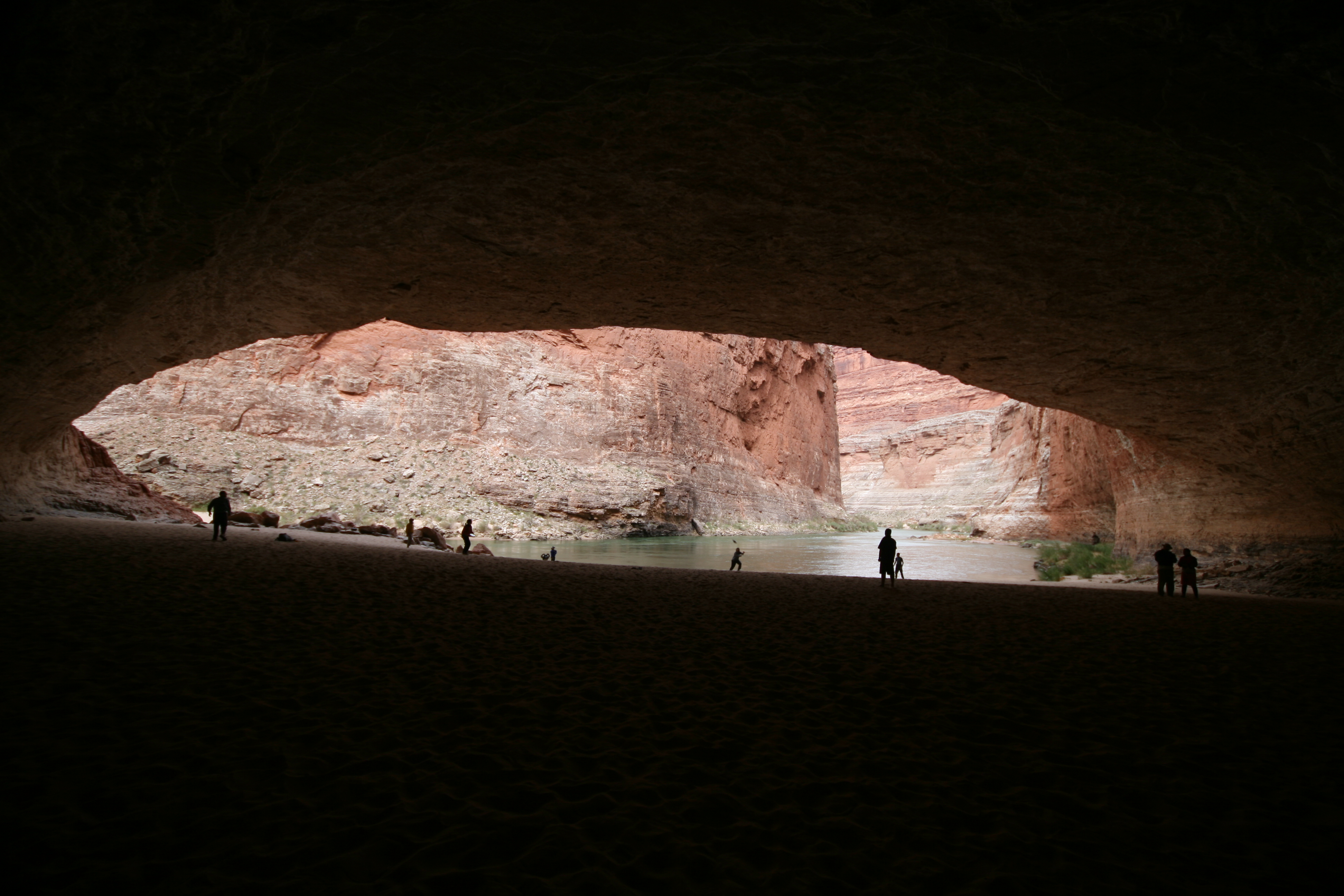 River Party in Redwall Cavern, Grand Canyon